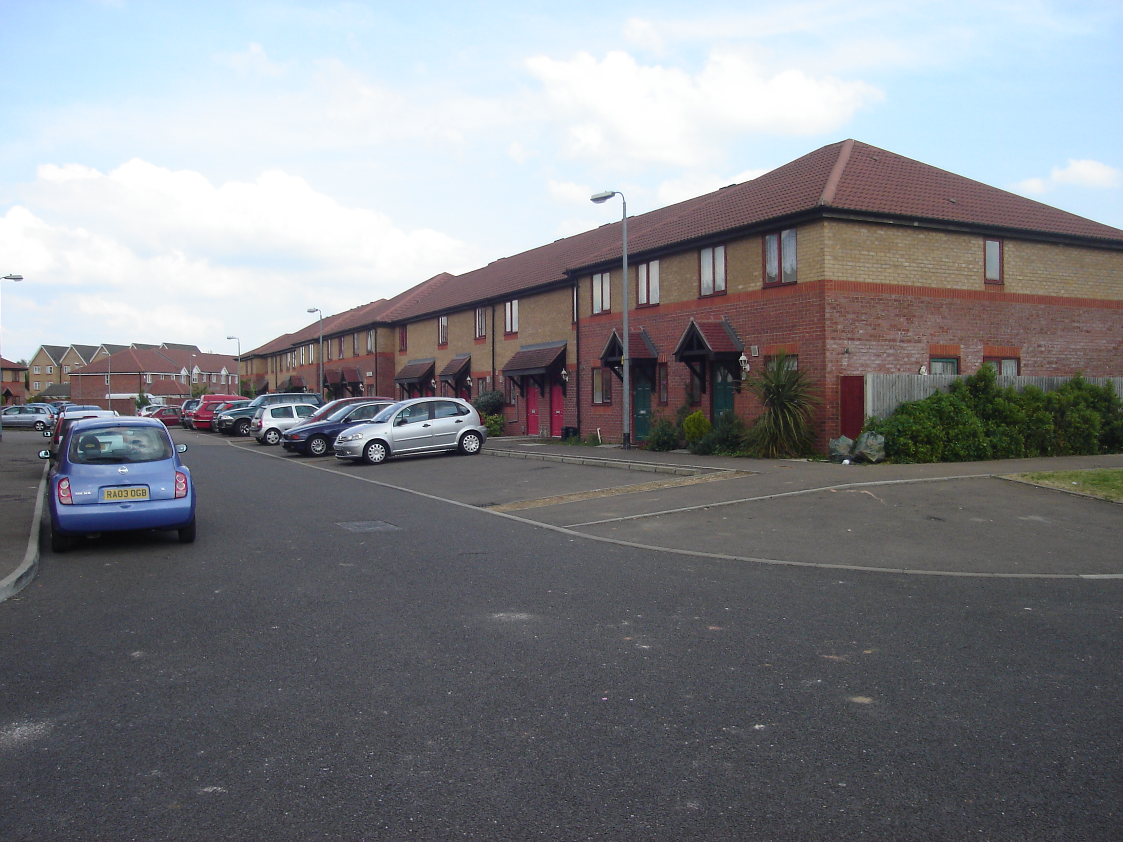 Picture of housing at Enfield Island Village